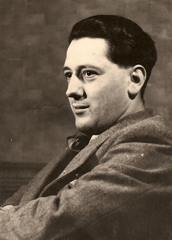 Swiss Composer and Musician Otto Würsch